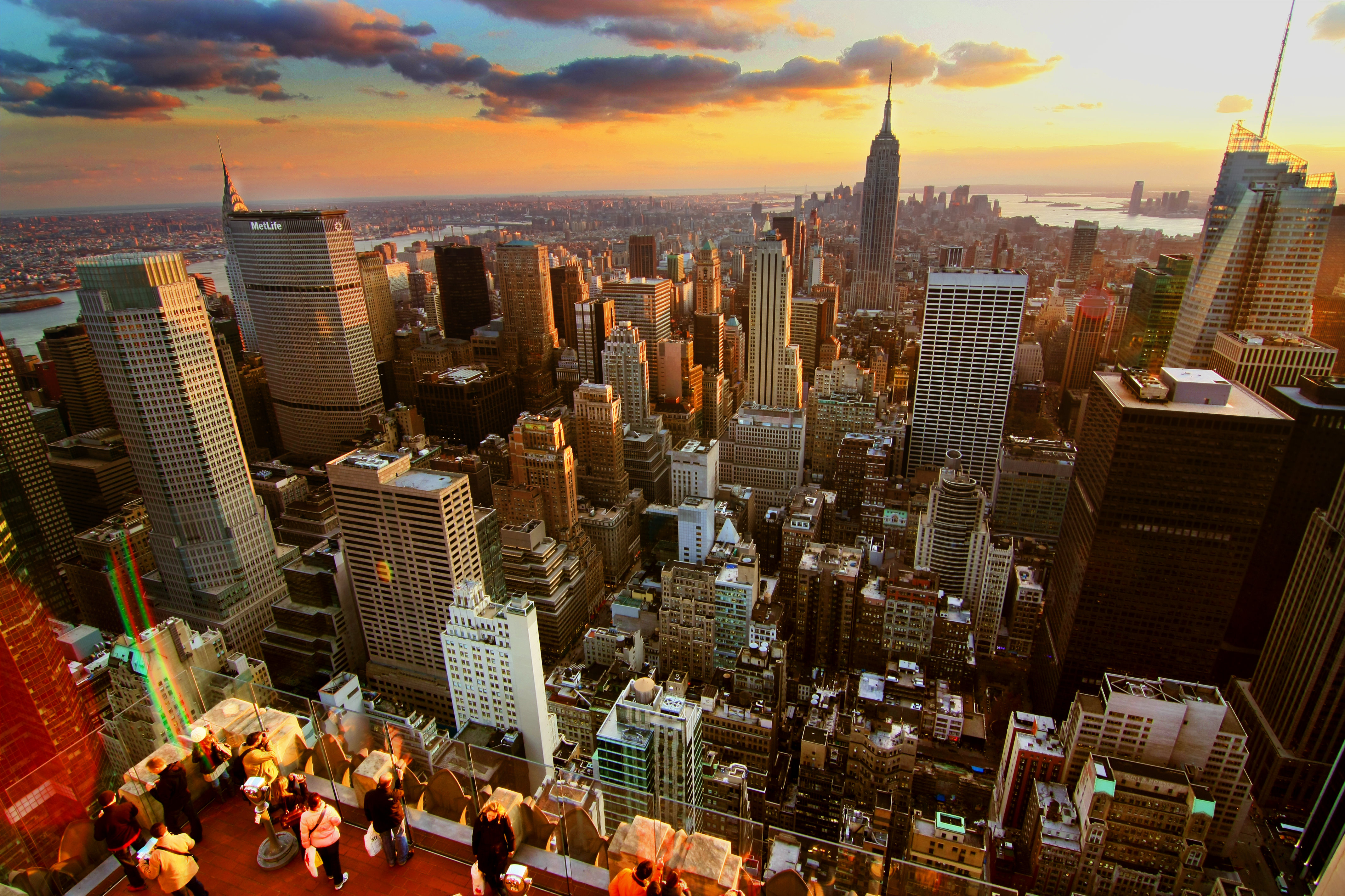 View of Manhattan from Rockefeller Center.